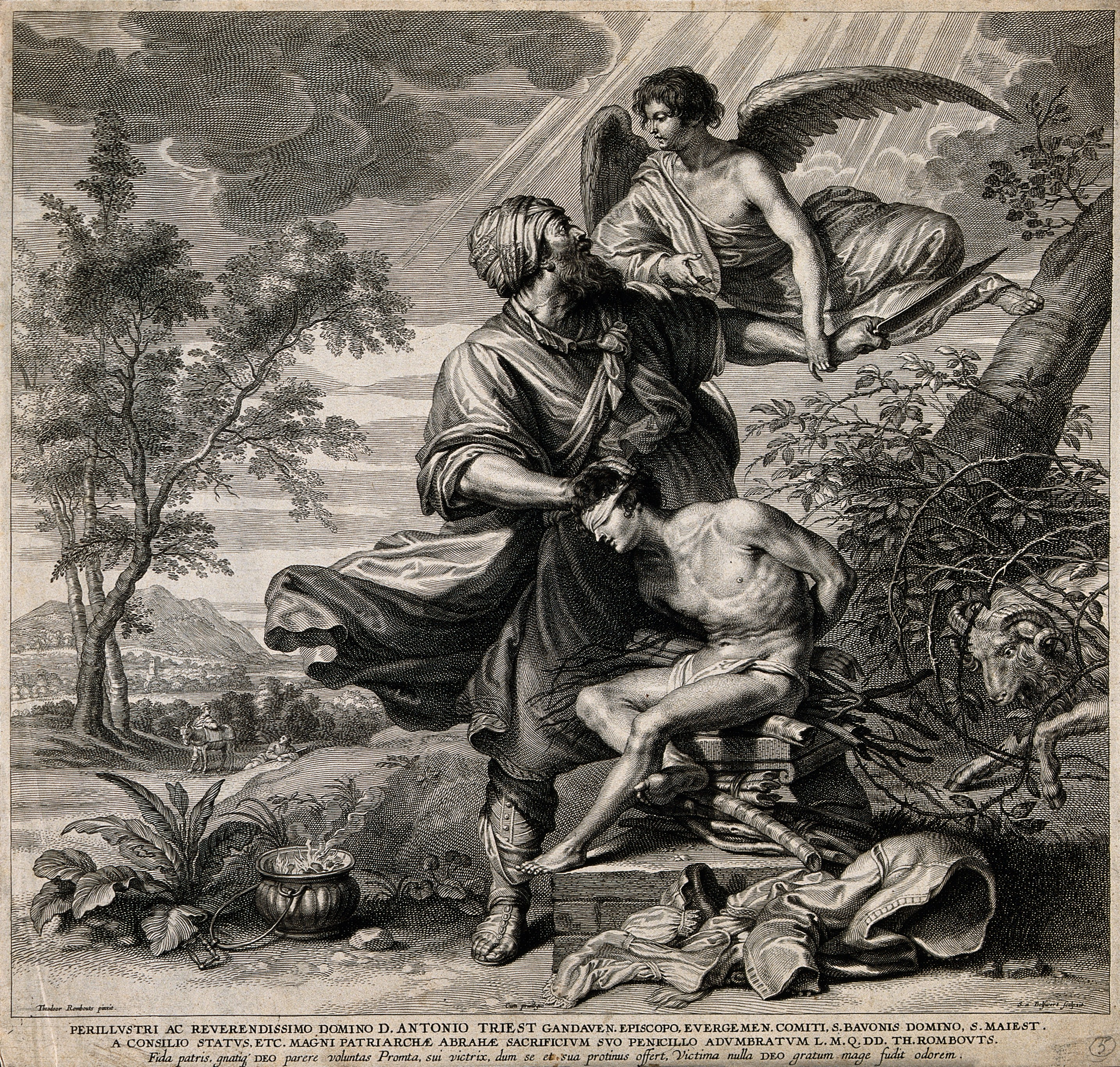 The angel intervenes as Abraham prepares to sacrifice Isaac. Engraving by S.A. Bolswert, c. 1620, after T. Romboots. Iconographic Collections Keywords: Isaac; Theodoor Rombouts; Abraham; Schelte Adams Bolswert